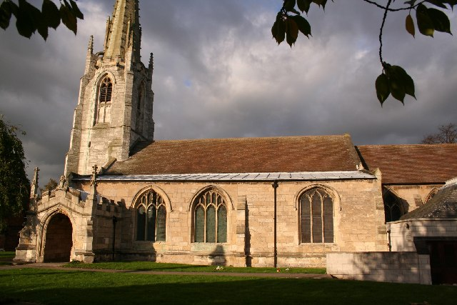 St.Michael's church, West Retford. A handsome Decorated and Perpendicular church